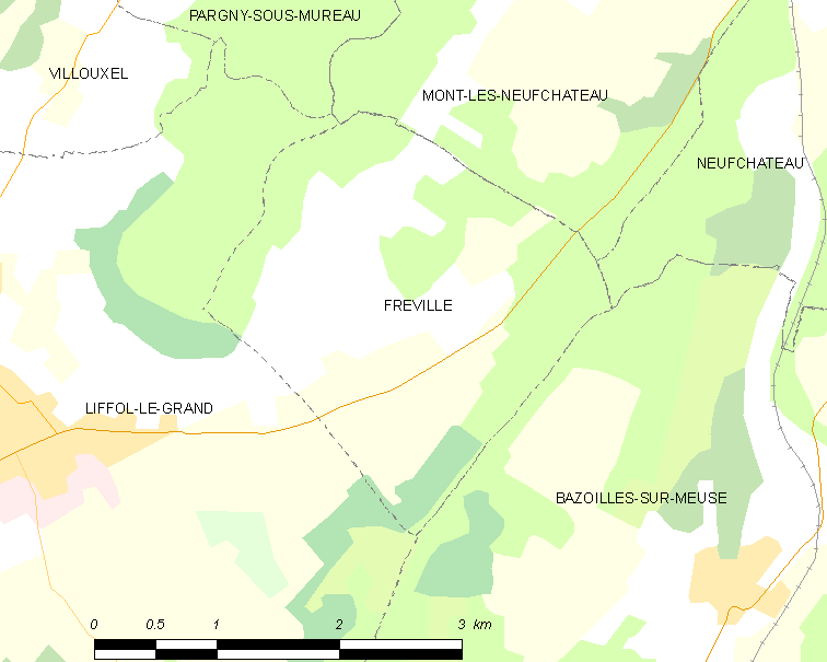 Map of French municipality Fréville